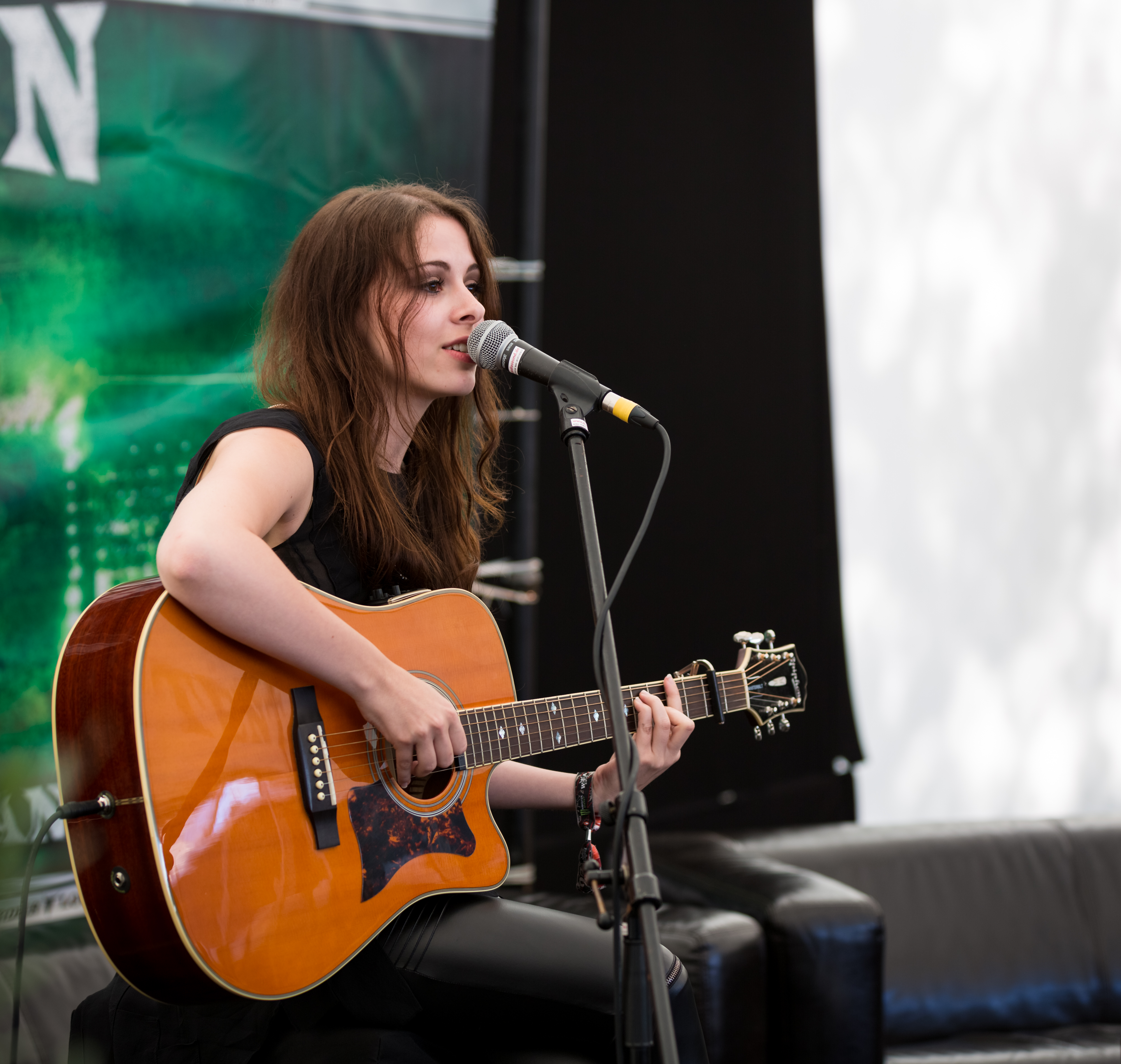 Beyond The Black Wacken Open Air 2016